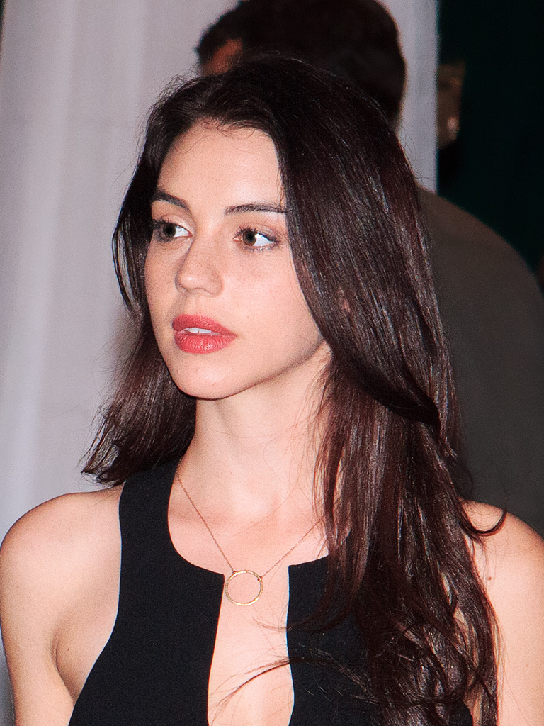 Adelaide Kane at the 2013 Toronto International Film Festival.